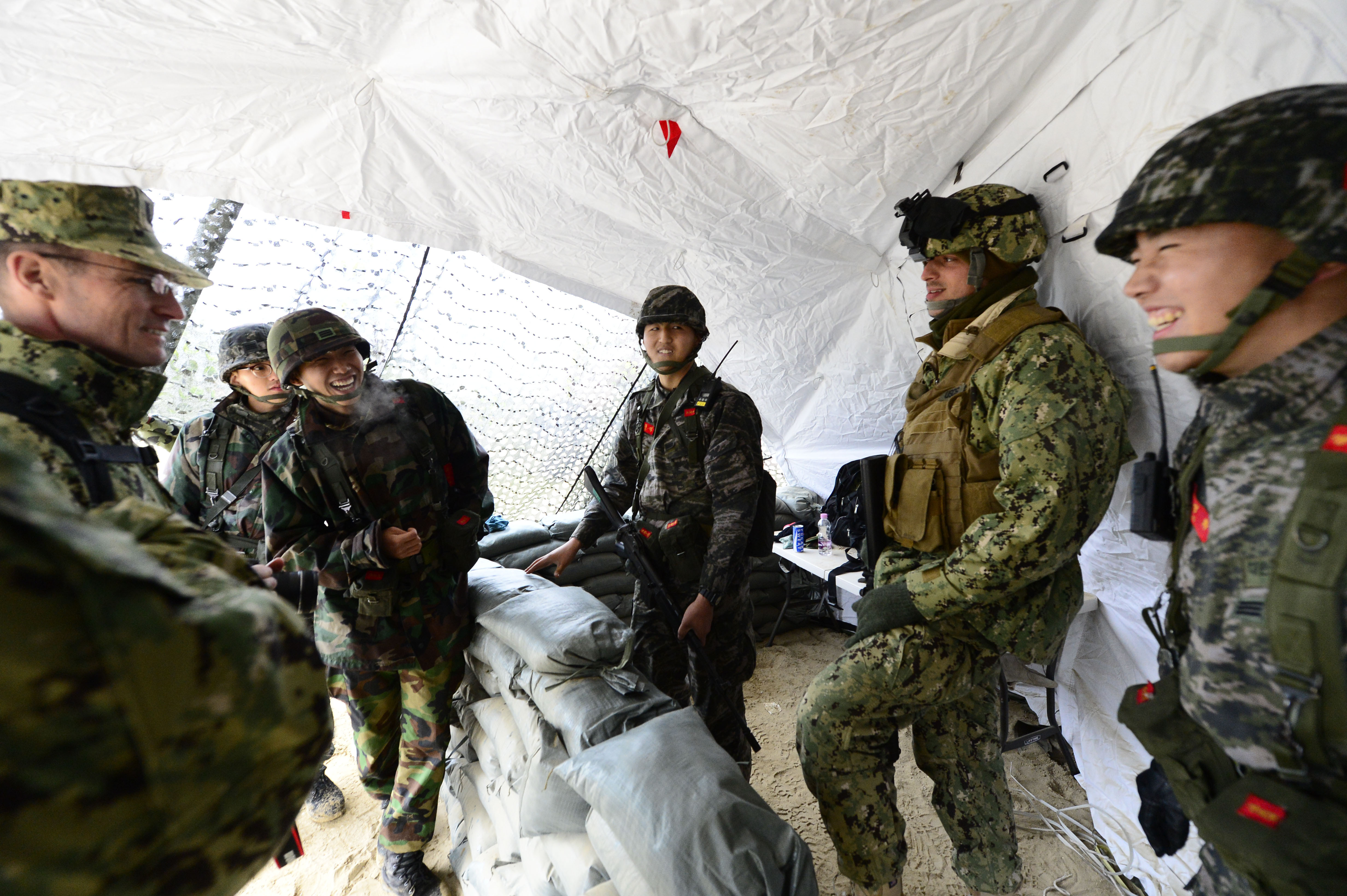 Coast Guard Petty Officer 2nd Class Spencer Filzen (second from right), of Port Security Unit (PSU) 313 of Everett, Wash., talks with marines from the Republic of Korea while standing a joint, security watch at the Joint Operations Center during a Combined Joint Logistics Over-the-Shore Exercise (CJLOTS), April 20, 2013. This is the first time since 2006 that a Coast Guard PSU has participated in the Korean Theater of Operations (KTO). (U.S. Coast Guard photo by Petty Officer 2nd Class Etta Smith/Released)